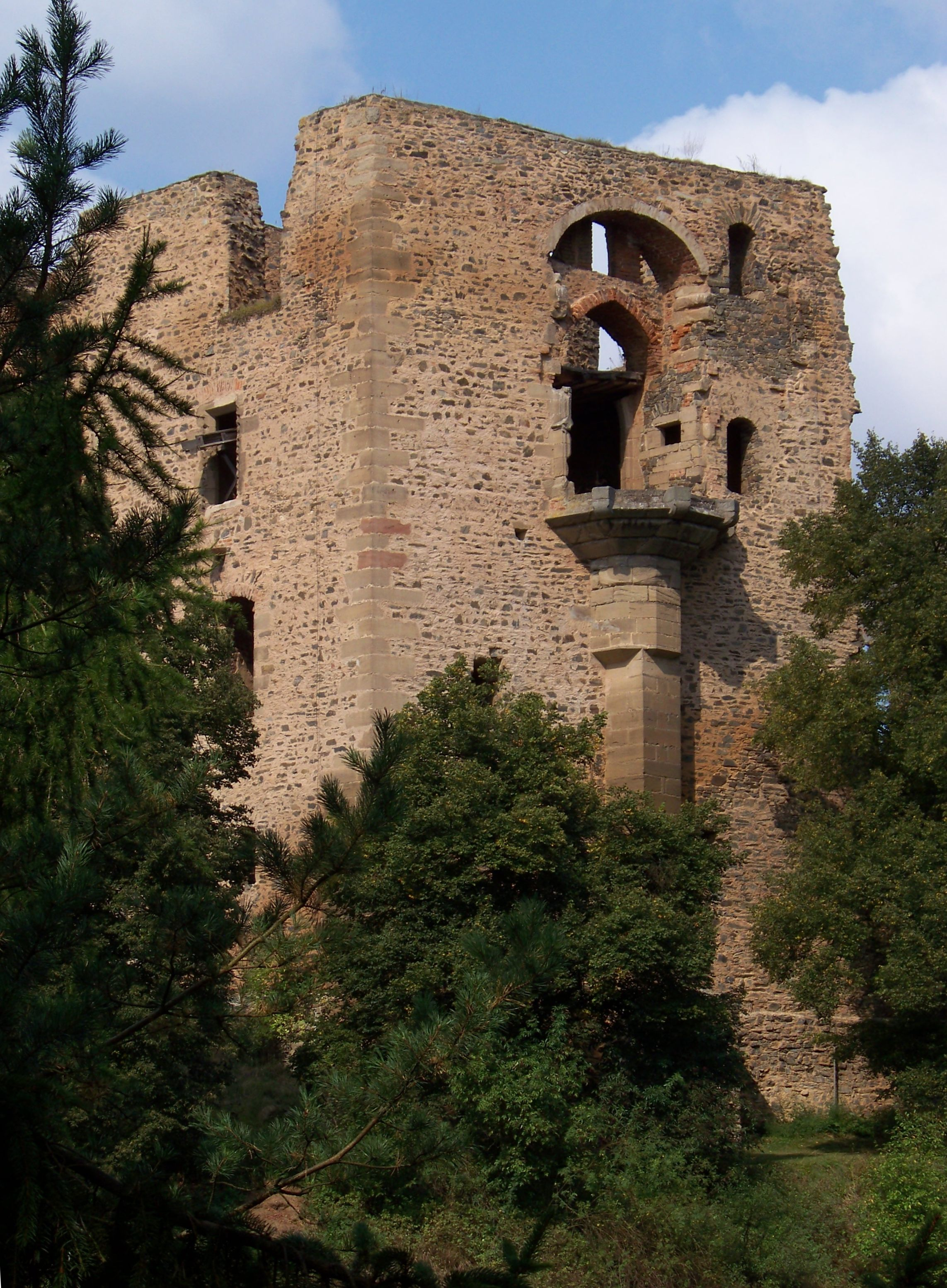 Krakovec, Rakovník District, Central Bohemian Region, the Czech Republic. Krakovec Castle.